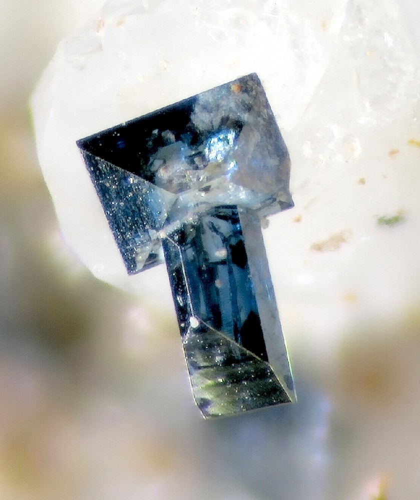 Anatase Locality: Adra-Motril highway, Adra, Almería, Andalusia, Spain Picture width 1 mm. Collection and photograph Christian Rewitzer